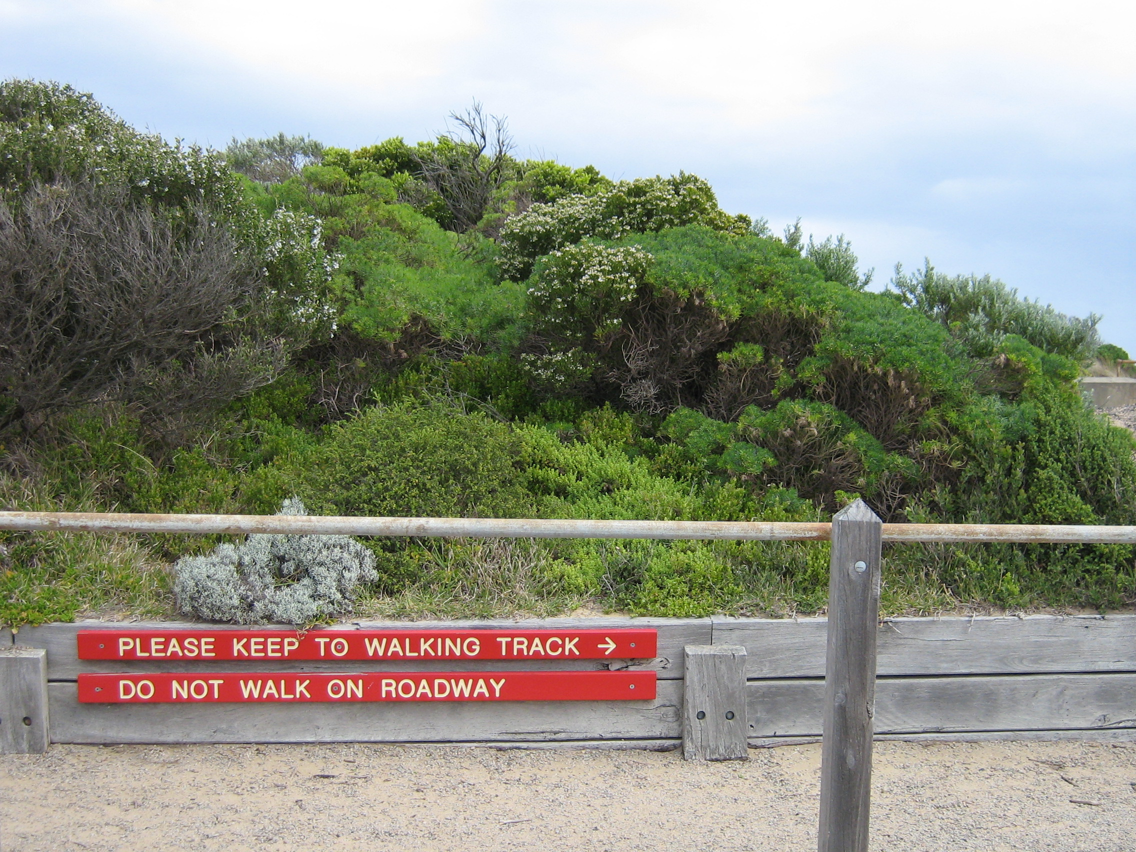 Point Nepean coastal walk. Photo taken by me.